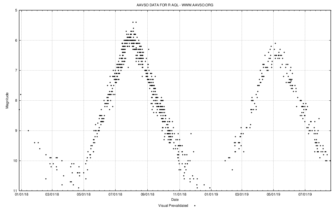 This light curve is generated from AAVSO data using the light curve generator tool. It shows the brightness variations from the Mira variable R Aquilae from January 2018 to July 2019.